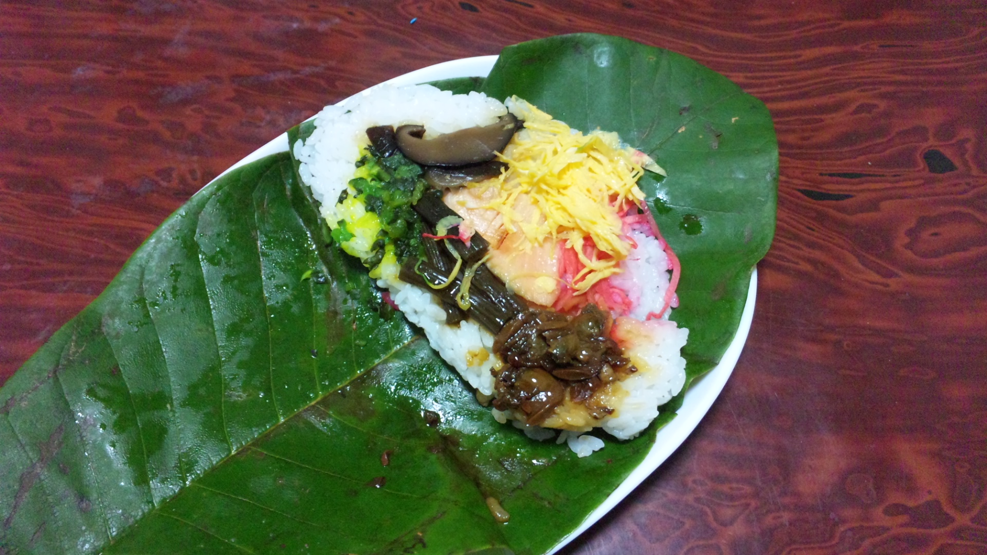 Hobazushi of the Tohno(Gifu Prefecture) origin production (homemade).